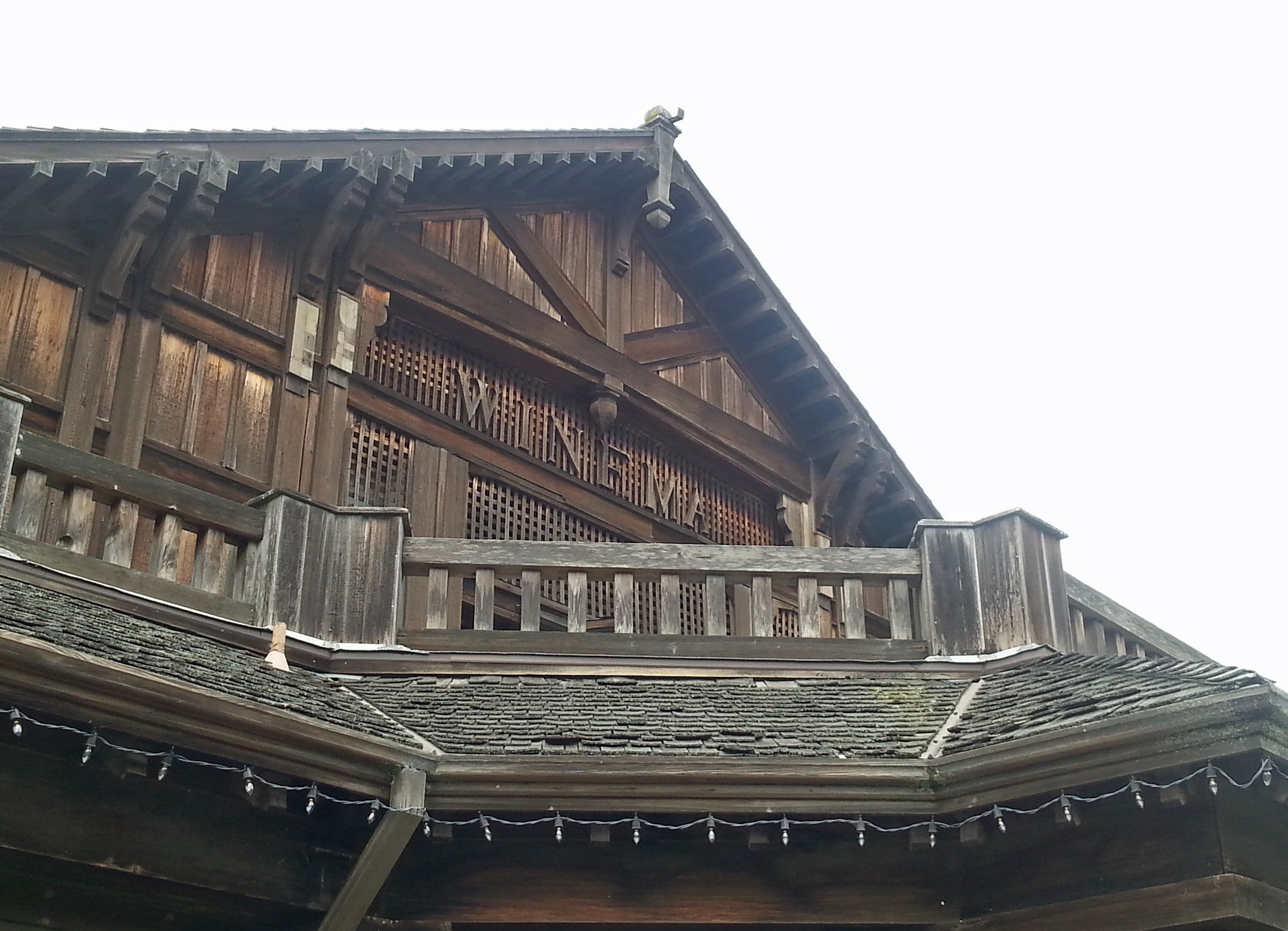 The marquee sign of the Winema Theater in Scotia, California. The Winema Theater was designed by Alfred Henry Jacobs, first performance on November 20, 1920. Built of redwood, seated 600 originally. The building is 128 feet long, 58 feet wide and 45 feet high. It was fully renovated in 2000-2002 with new sound system, lights and seating.